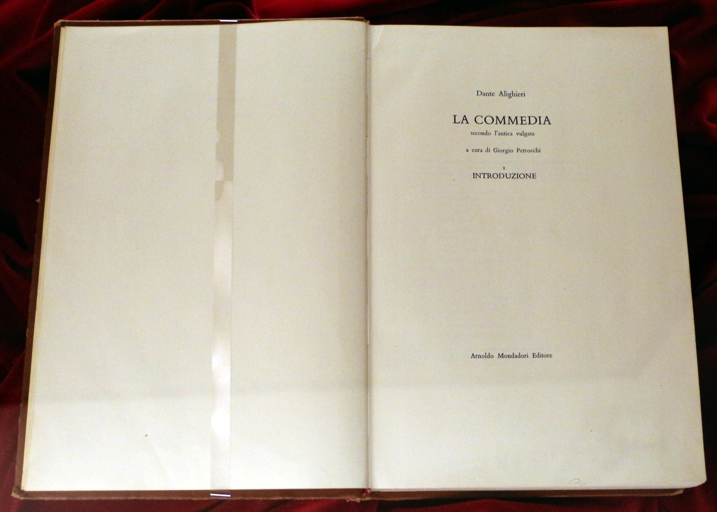 Collections of the Biblioteca Medicea Laurenziana